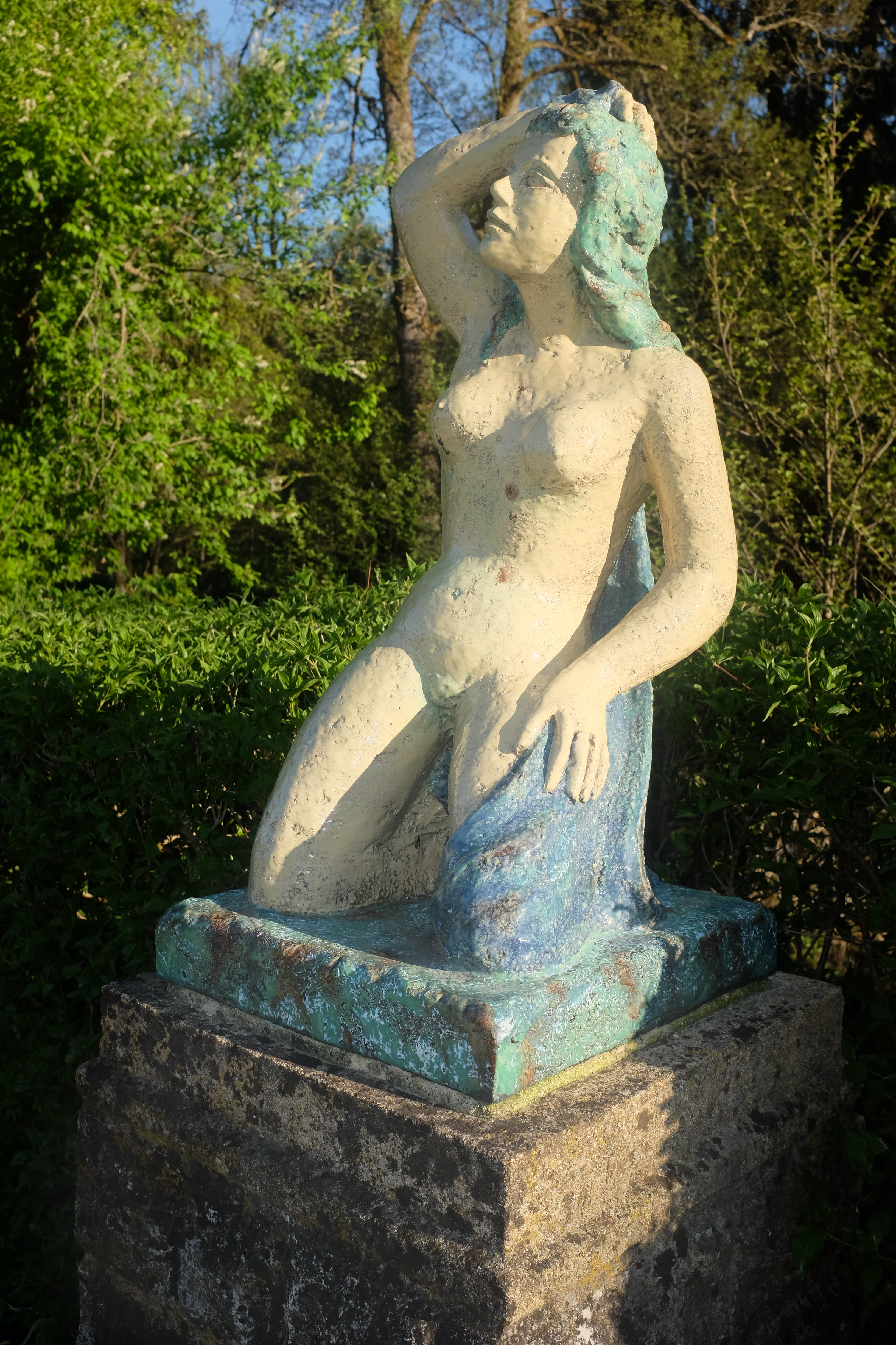 Maiolica sculptures, Kurpark Villingen, Villingen-Schwenningen, Baden-Württemberg, Germany